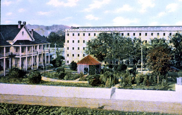 A 1910 Postcard depicting the South Carolina Penitentiary from the Howard G. Woody Collection.